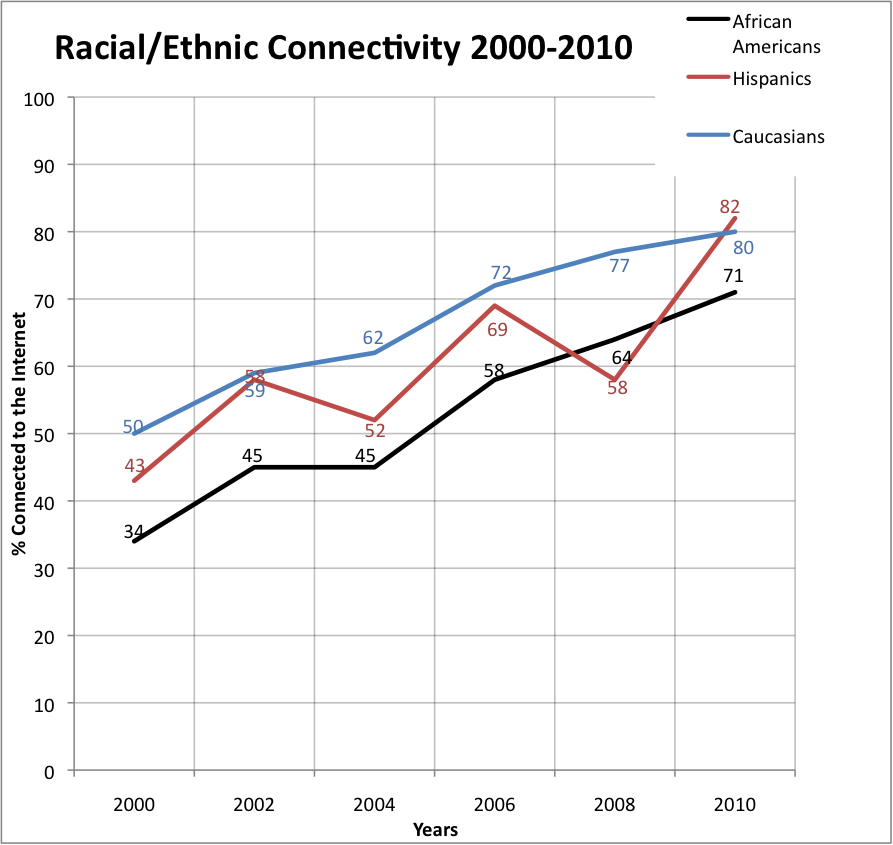 From pew studies, this graph demonstrates the trends in connectivity of Whites, Hispanics, and African Americans.